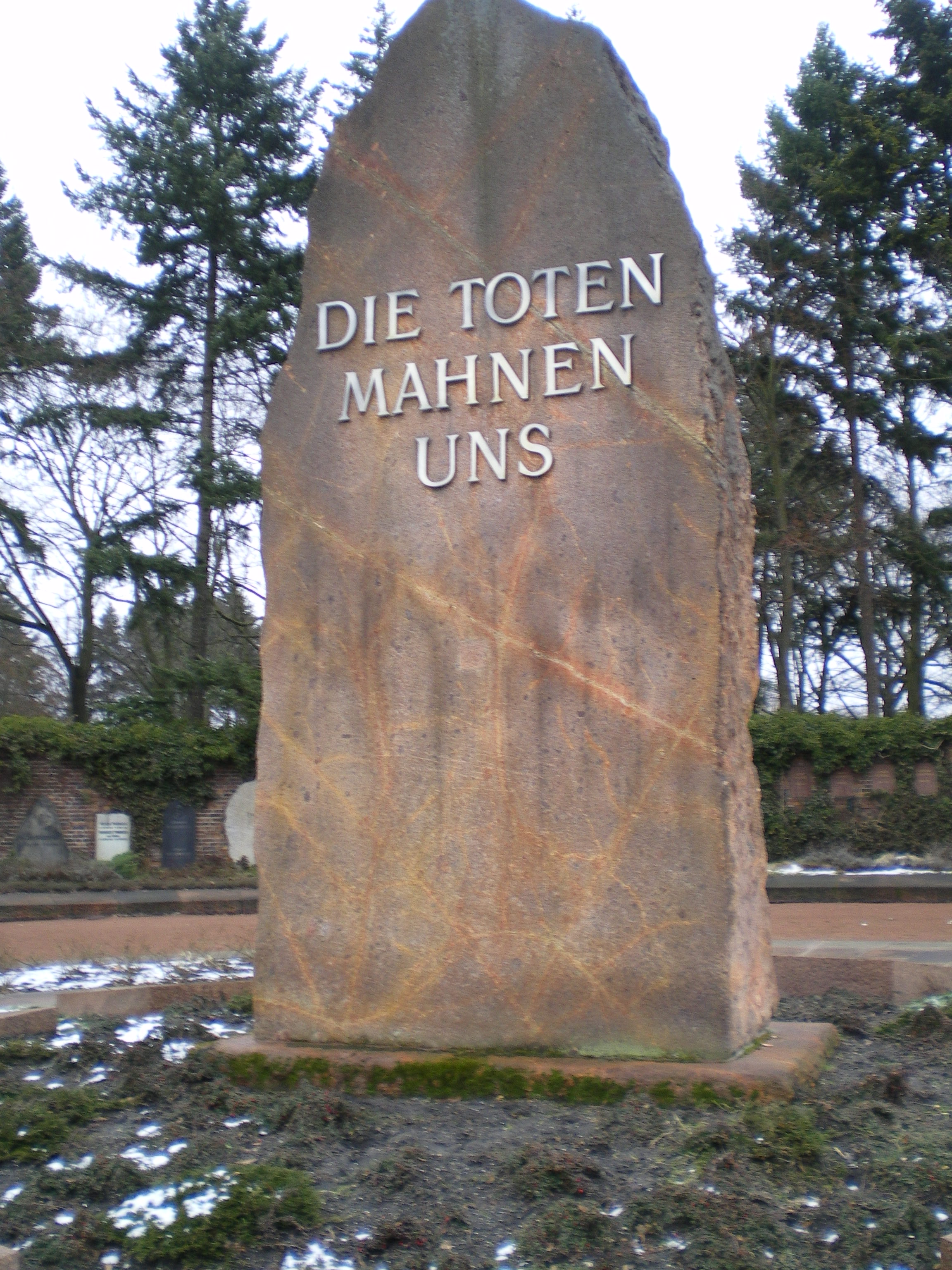 Photo of bauta standing on Zentralfriedhof Friedrichsfelde, Gedenkstätte der Sozialisten.